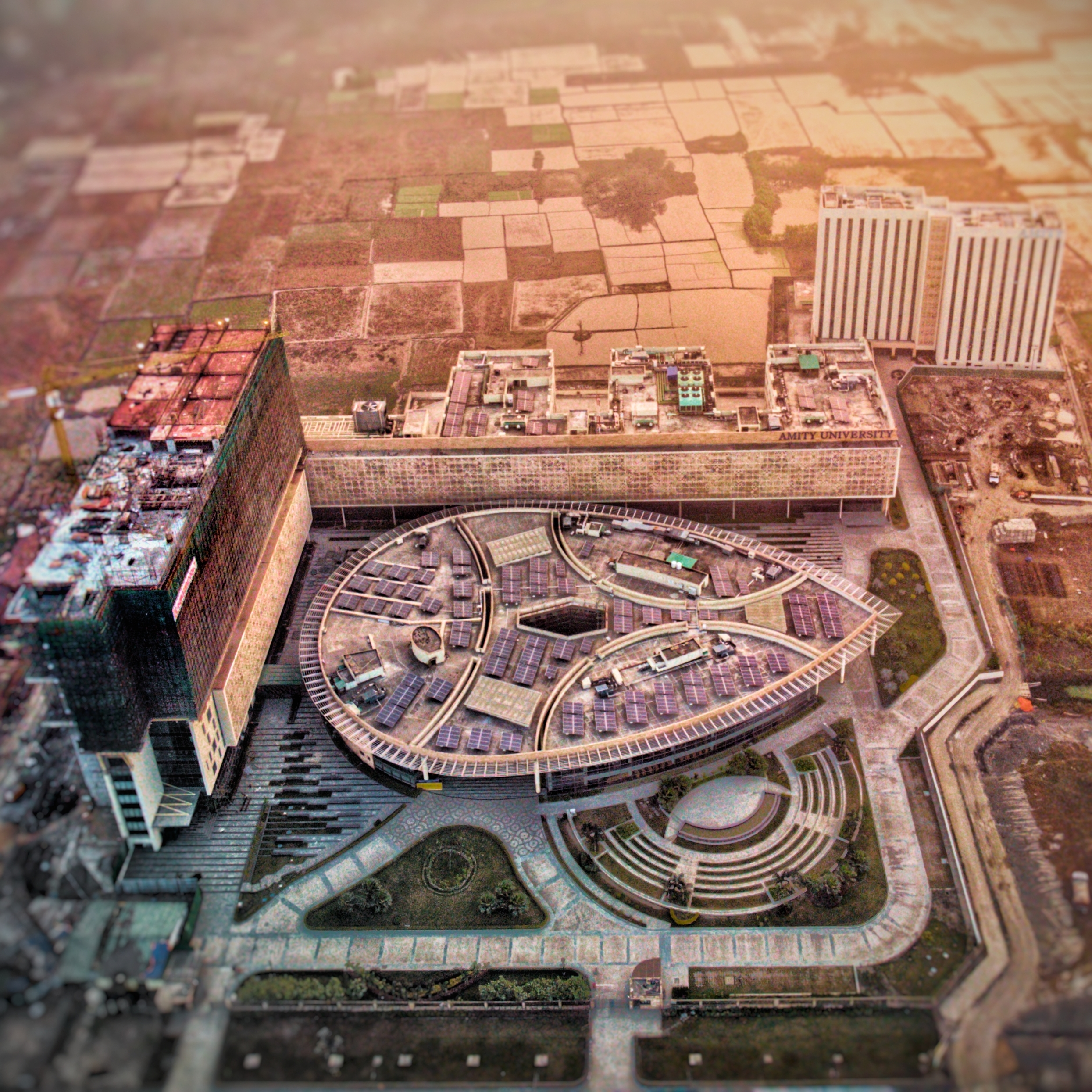 Aerial shot of Amity University Kolkata